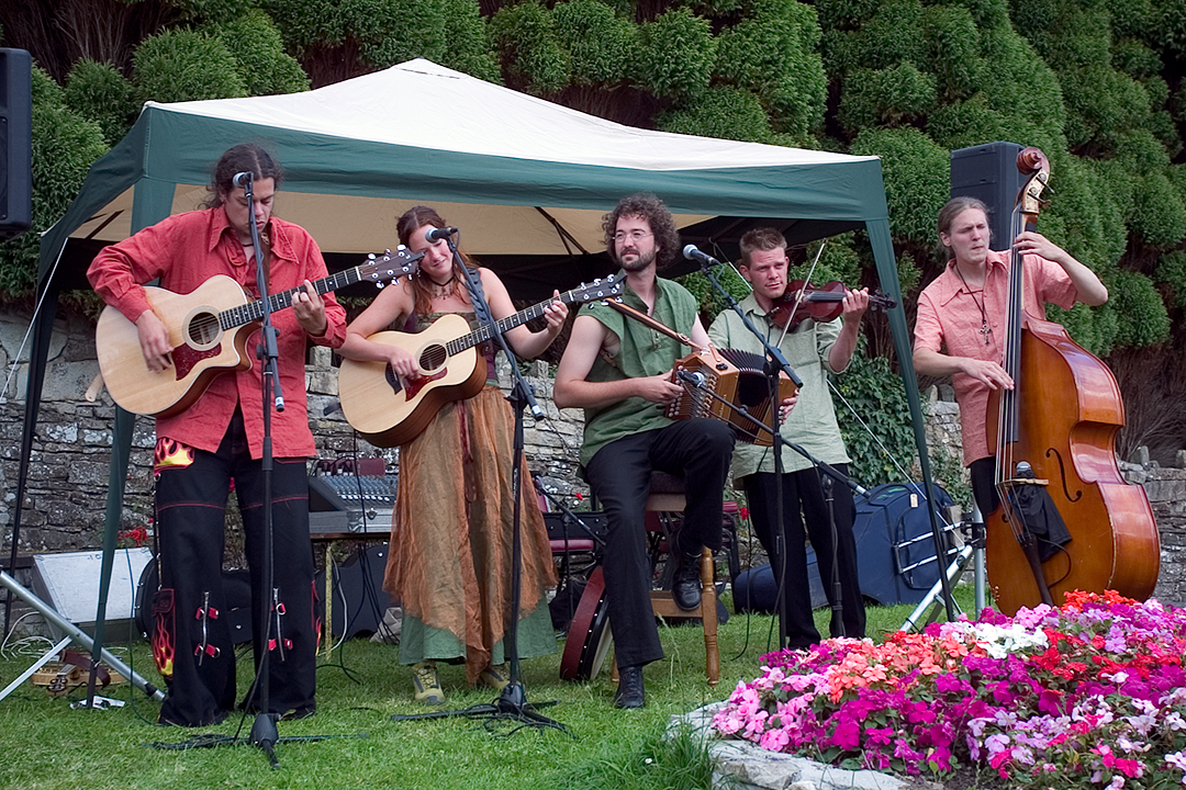 Harmony Glen, a Dutch Irish traditional band, Feakle Festival 2006, County Clare, Ireland